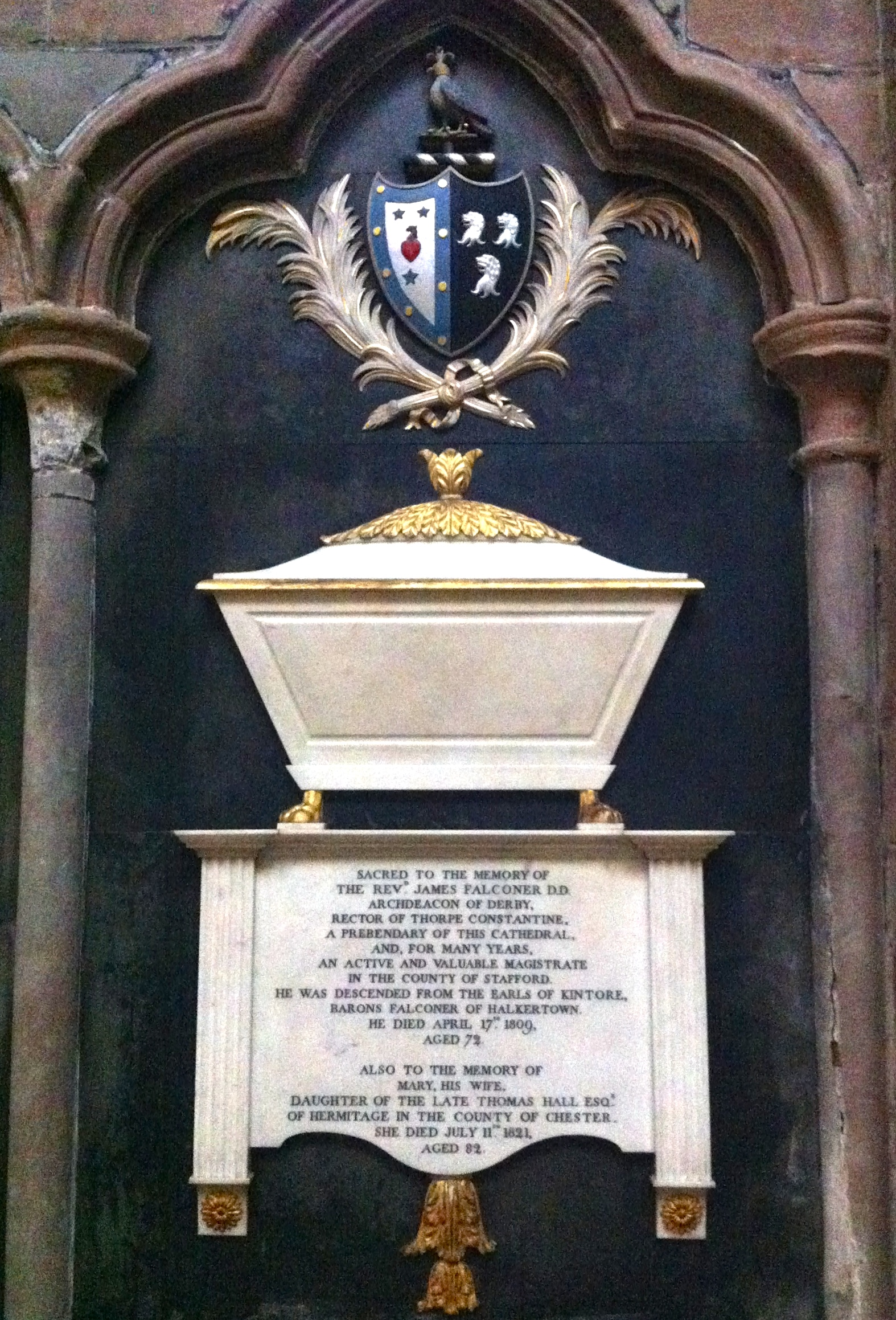 Revd James Falconer, D.D., Archdeacon of Derby, Rector of Thorpe Constantine. Died April 17th, 1809, aged 72. Also Mary his wife, daughter of the late Thomas Hall of Hermitage in the County of Chester, she died July 11th 1821. The Ven. James Falconer, DD (1738–1809) was an English cleric. He was Archdeacon of Derby from 1795 until his death. He was the son of James Falconer of Chester, and his wife Elizabeth Inge, daughter of William Inge of Thorpe Constantine Hall. He married Mary Hall (died 1821), daughter of Thomas Hall of Armitage, and his wife Elizabeth Bayley.